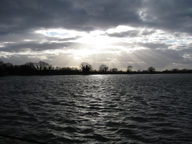 Startops Reservoir, Tring – Let there be Light Startops Reservoir was built in 1817, down slope of Marsworth Reservoir, in 1817, to provide water for the Grand Junction Canal (now Grand Union Canal). This shows it on a stormy winter's afternoon.